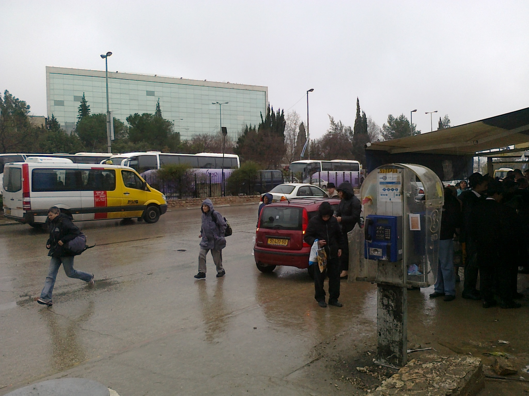 "Pitzuz Shel Kiosk", Bus stop "ICC Jerusalem", Shazar Boulevard, Jerusalem, Israel, View of the International Convention Center, Shazar Boulevard, Jerusalem, Israel. The photo was taken the morning after the 2011 Jerusalem bomb attack.